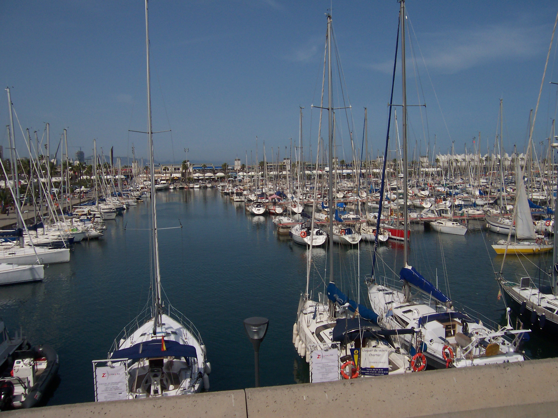 Port Olympic, in Barcelona.